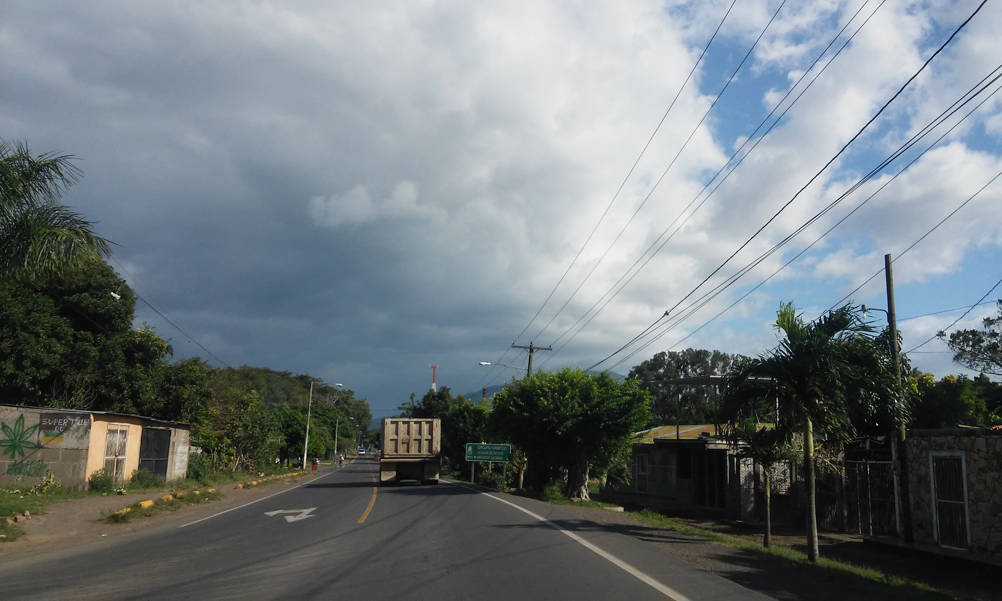 Photo taken in the municipality of Diriá, Granada department. At the bottom, the Mombacho volcano on December 2016.